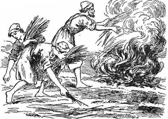 Croped version of M. Bihn & J. Bealings